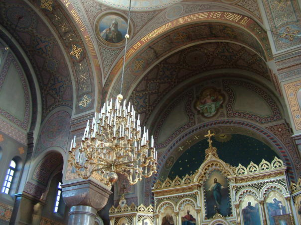 Interior of Uspenski Cathedral, Helsinki